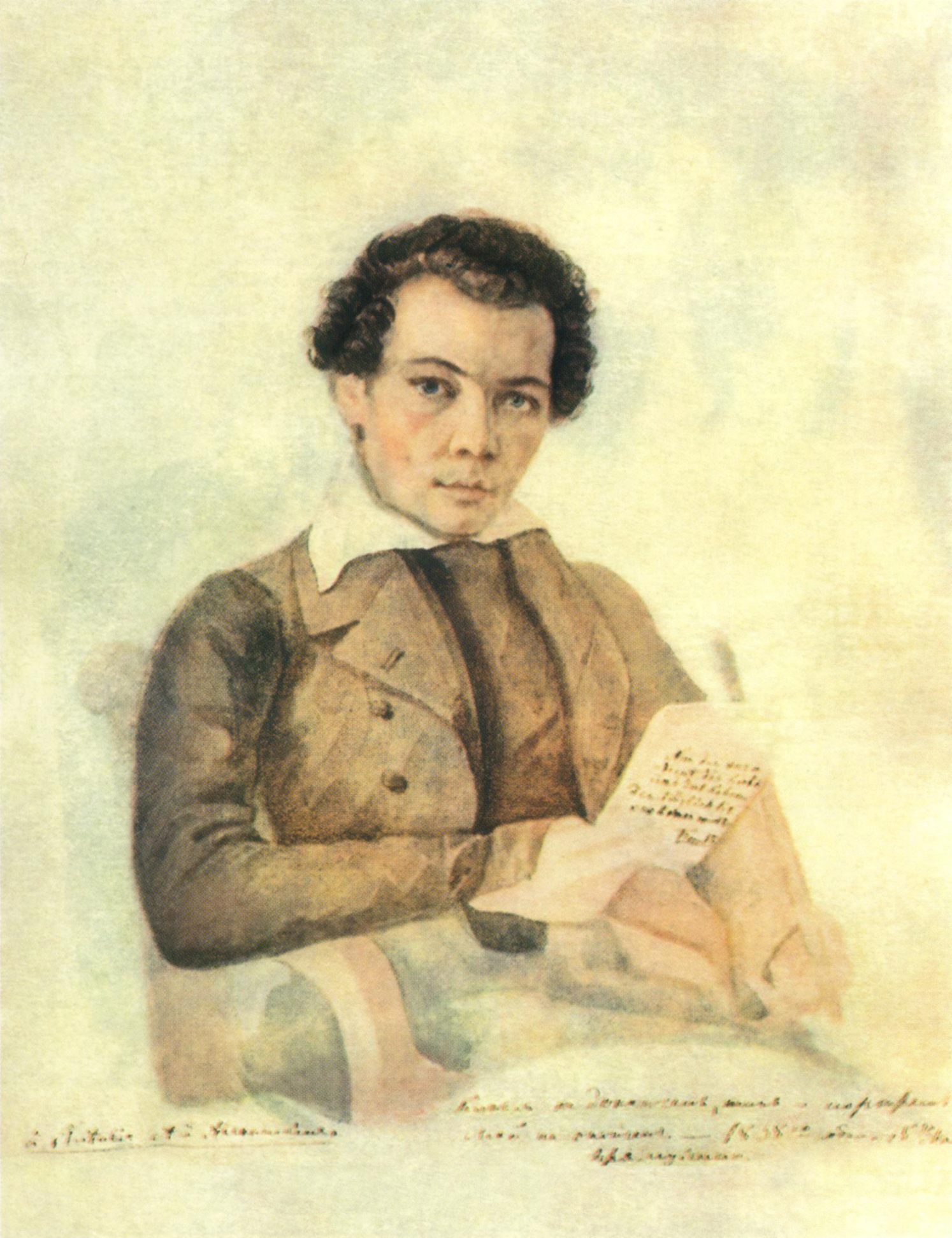 A watercolor selfportrait of Mikhail Bakunin from 1838.